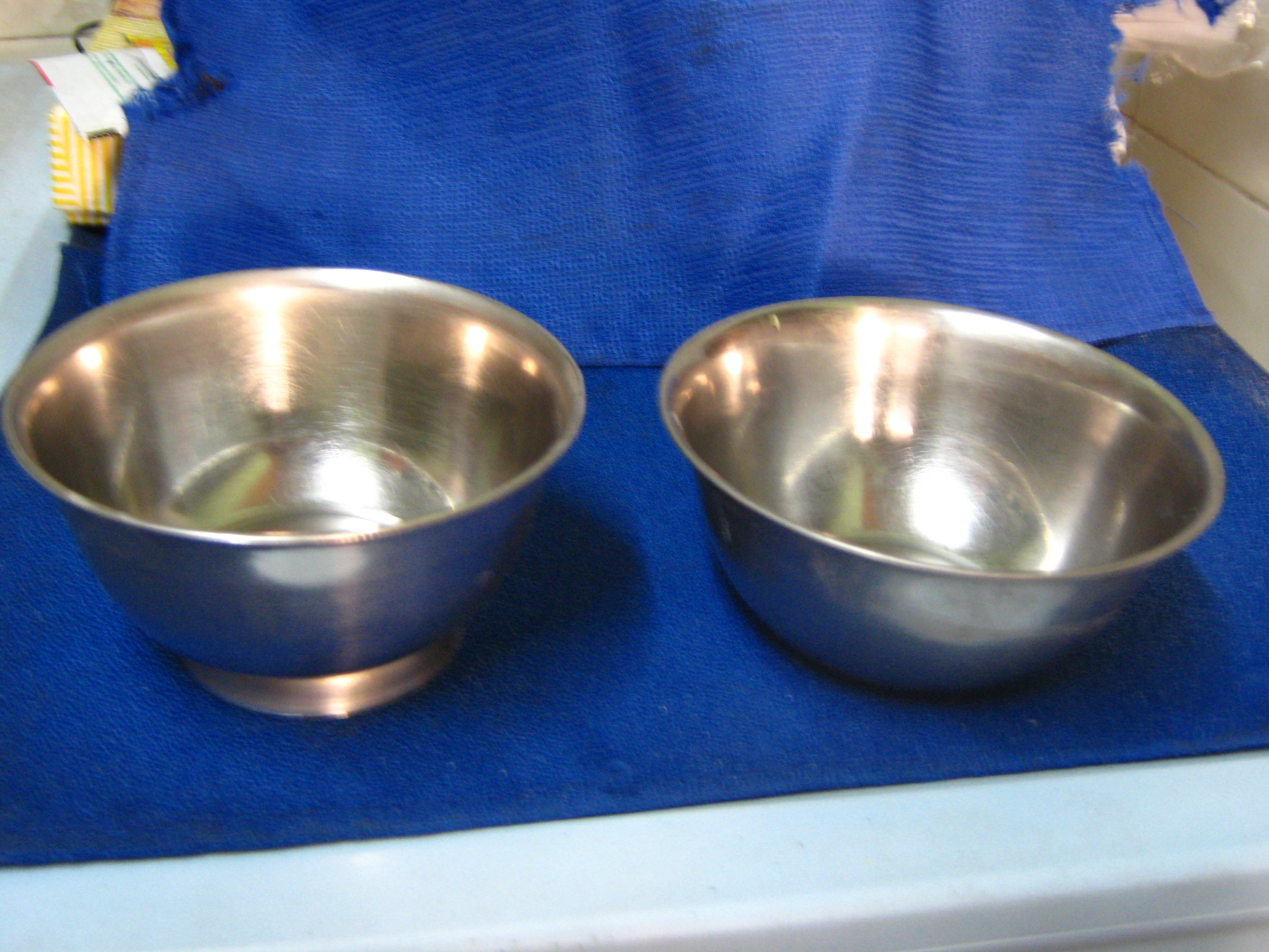 utensils used in Indian kitchen.